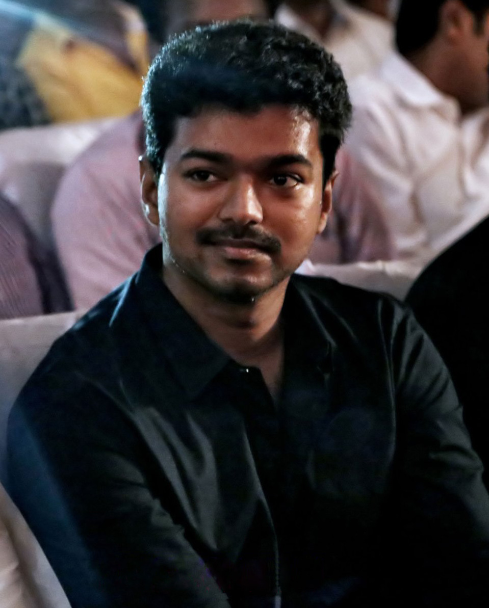 Vijay At The Jilla 100 days celebrations event